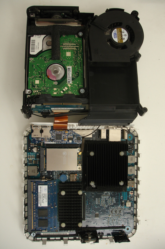 Inside a Apple Mac Mini